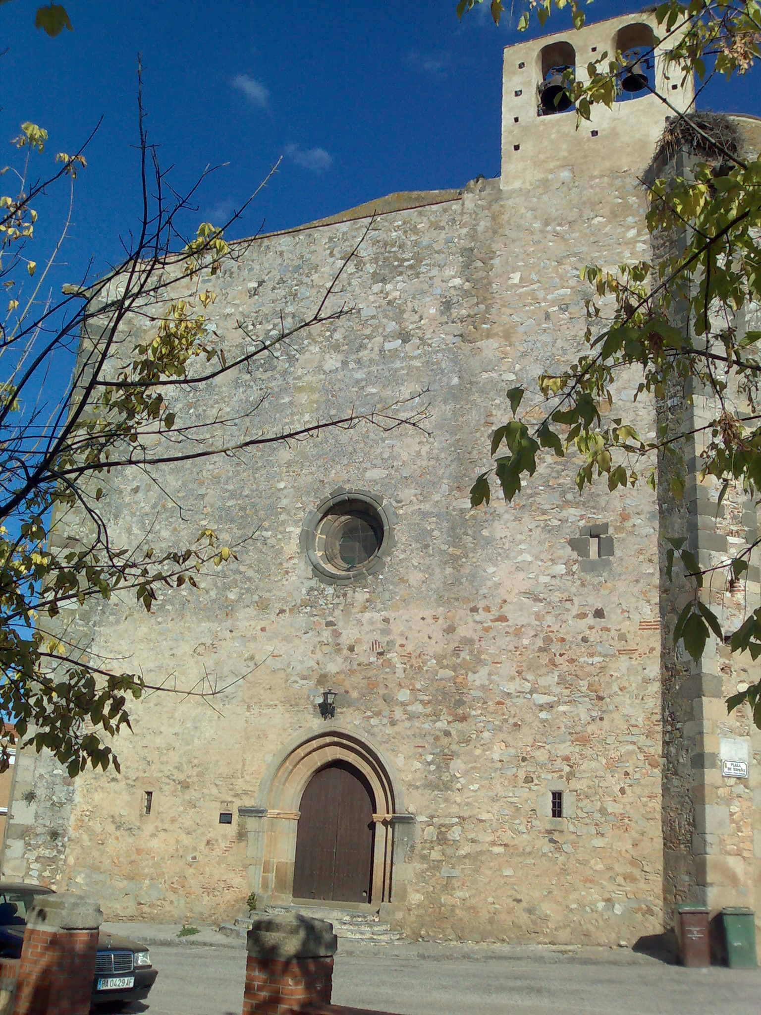 Almendral